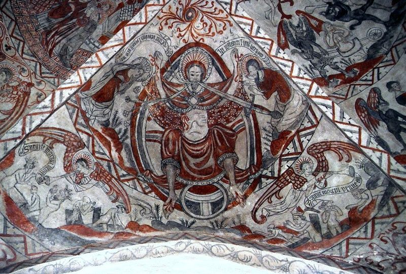 Frescoes by The Isefjord Master from apr. 1460-1480 in Tuse Kirke (church)